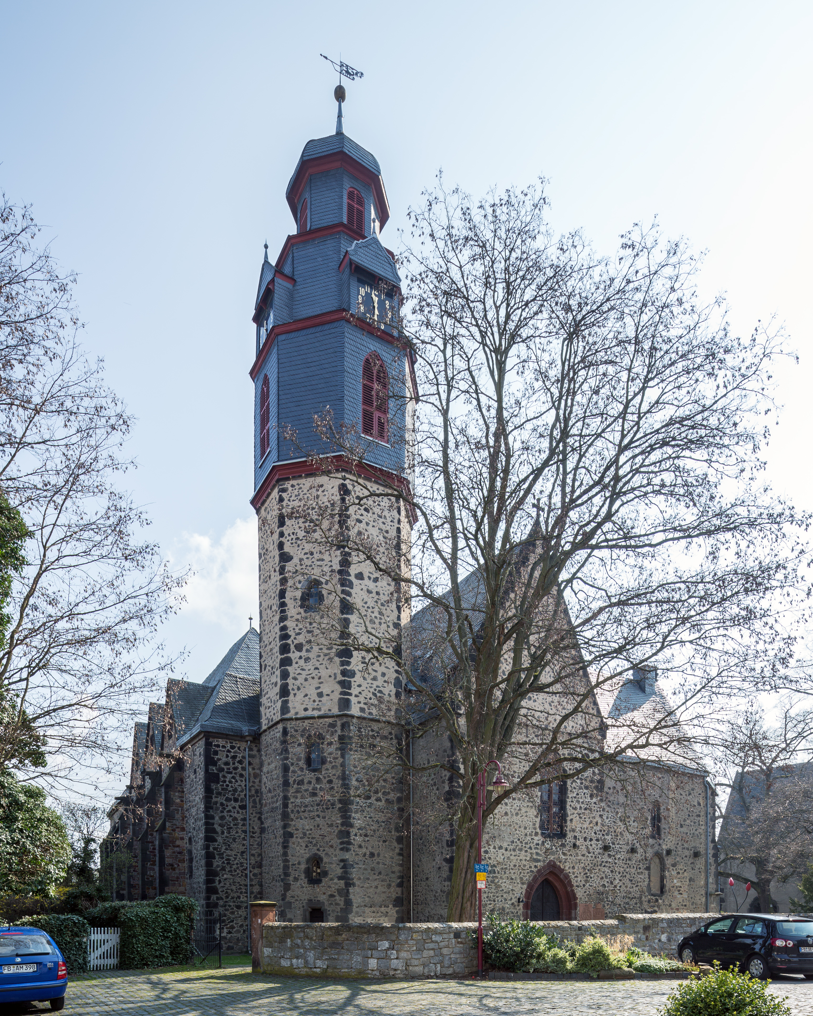 Butzbach: Markuskirche (St. Mark's Church) as seen from the northwest